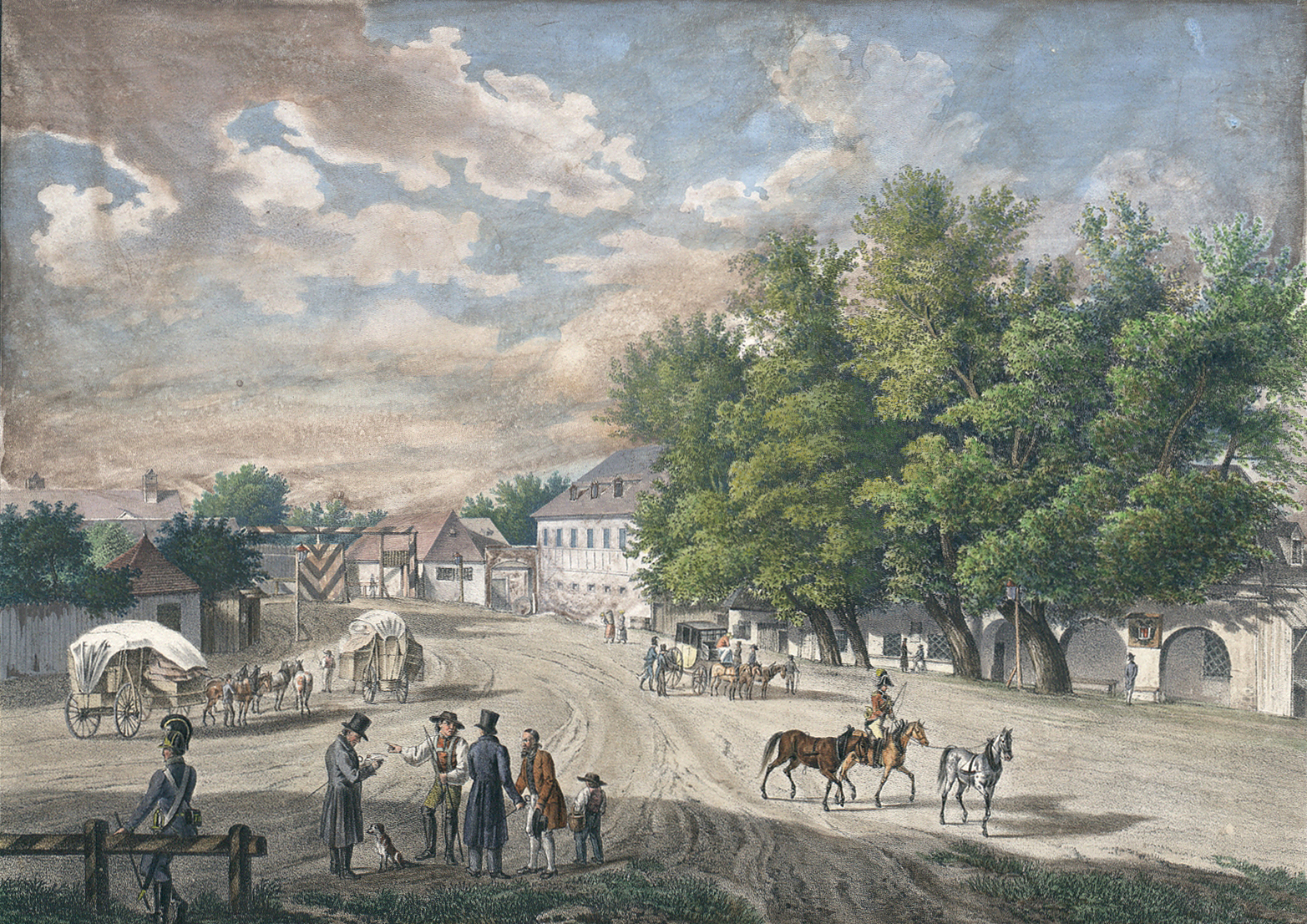 View of Tabor Linie (Toll station in Vienna). Colored lithograph